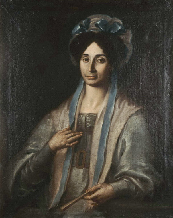 Elizavet Martinengou